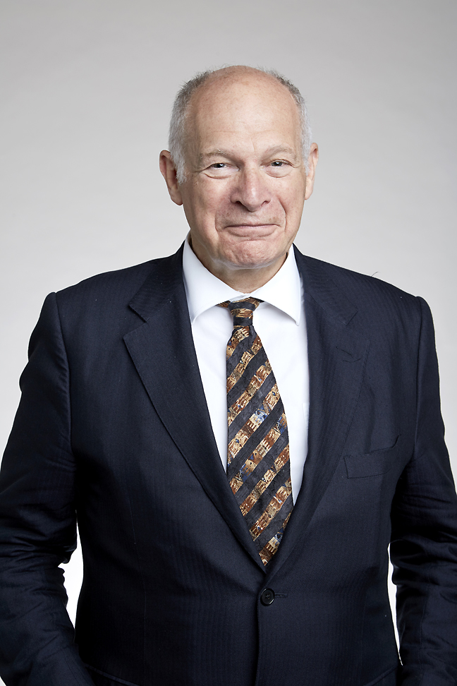 David Edmond Neuberger, Baron Neuberger of Abbotsbury, PC HonFRS (born 10 January 1948) is an English judge Attribution: The Royal Society